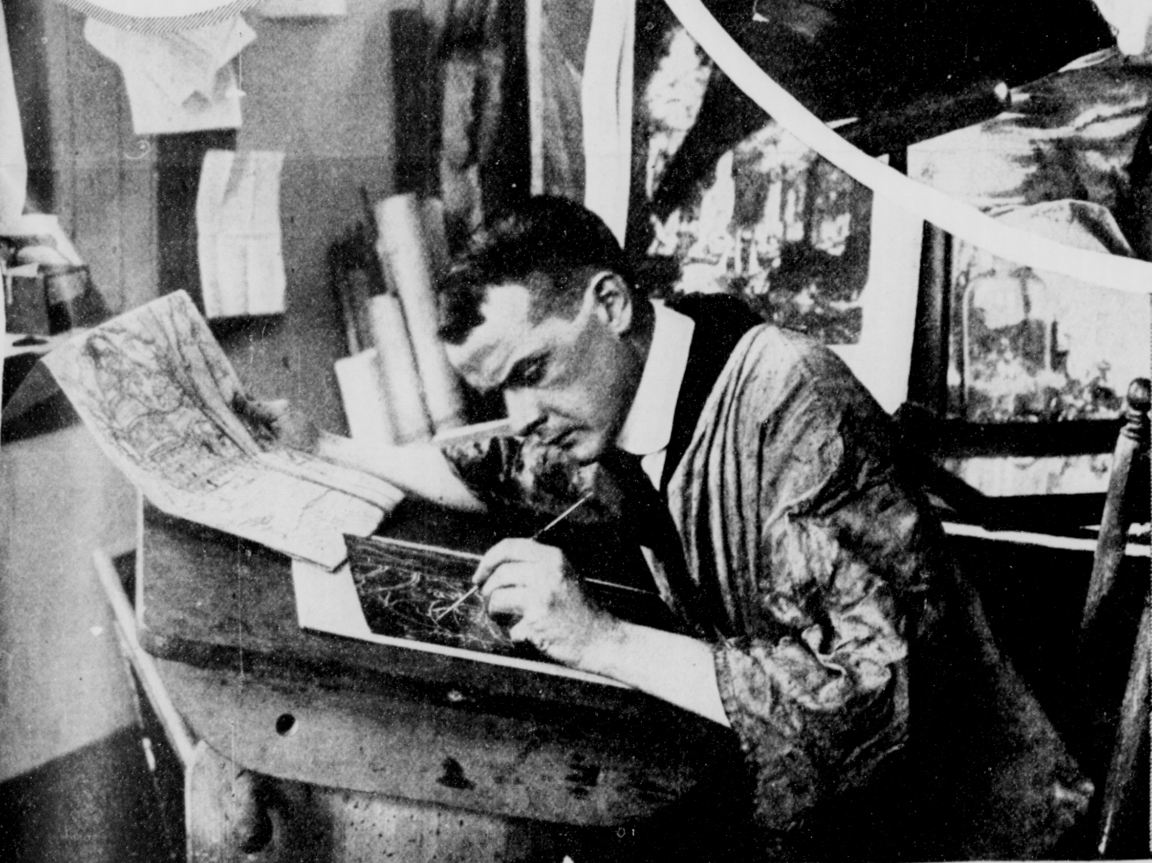 James Daugherty, artist